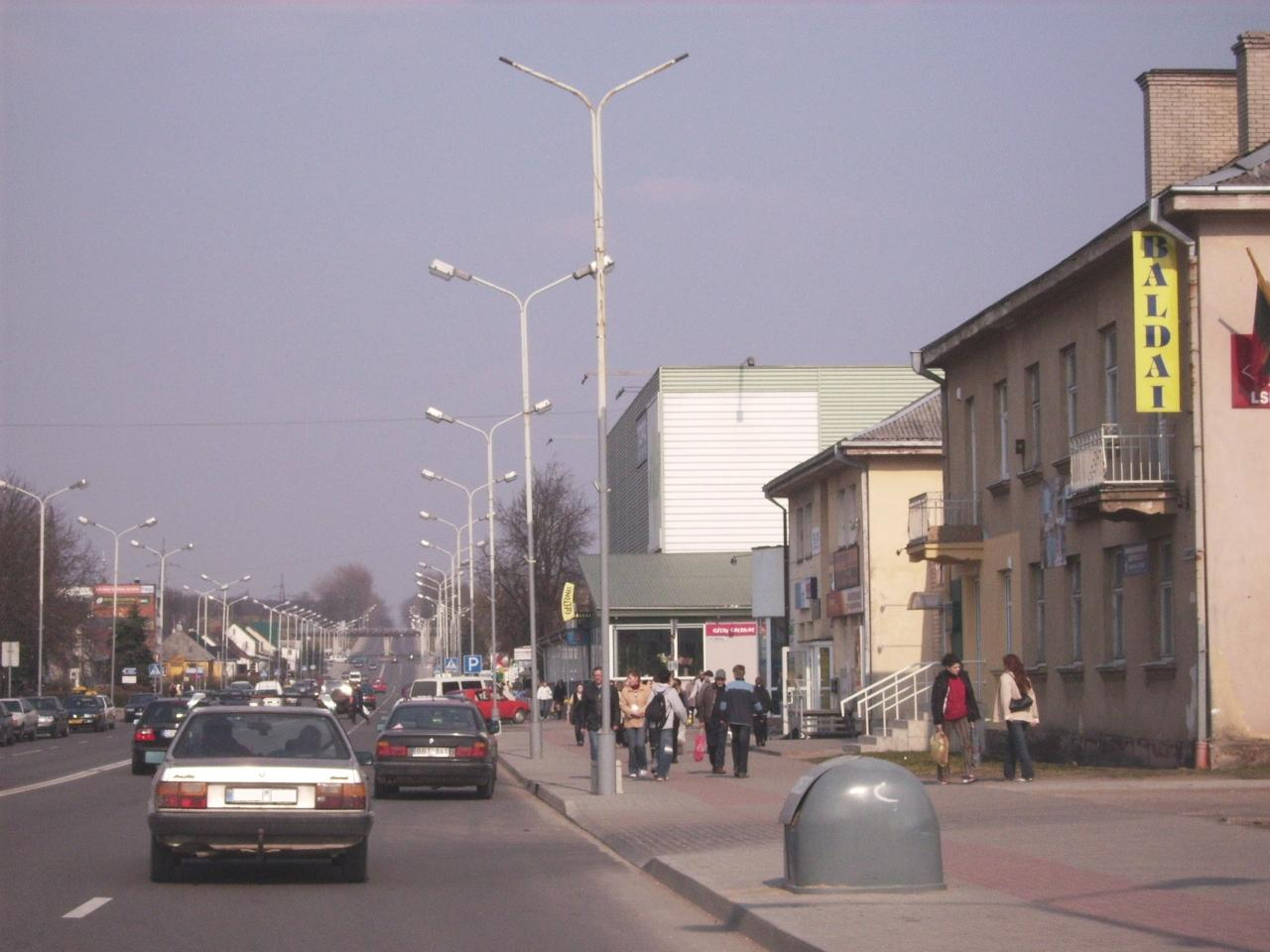 Jonava, Lithuania